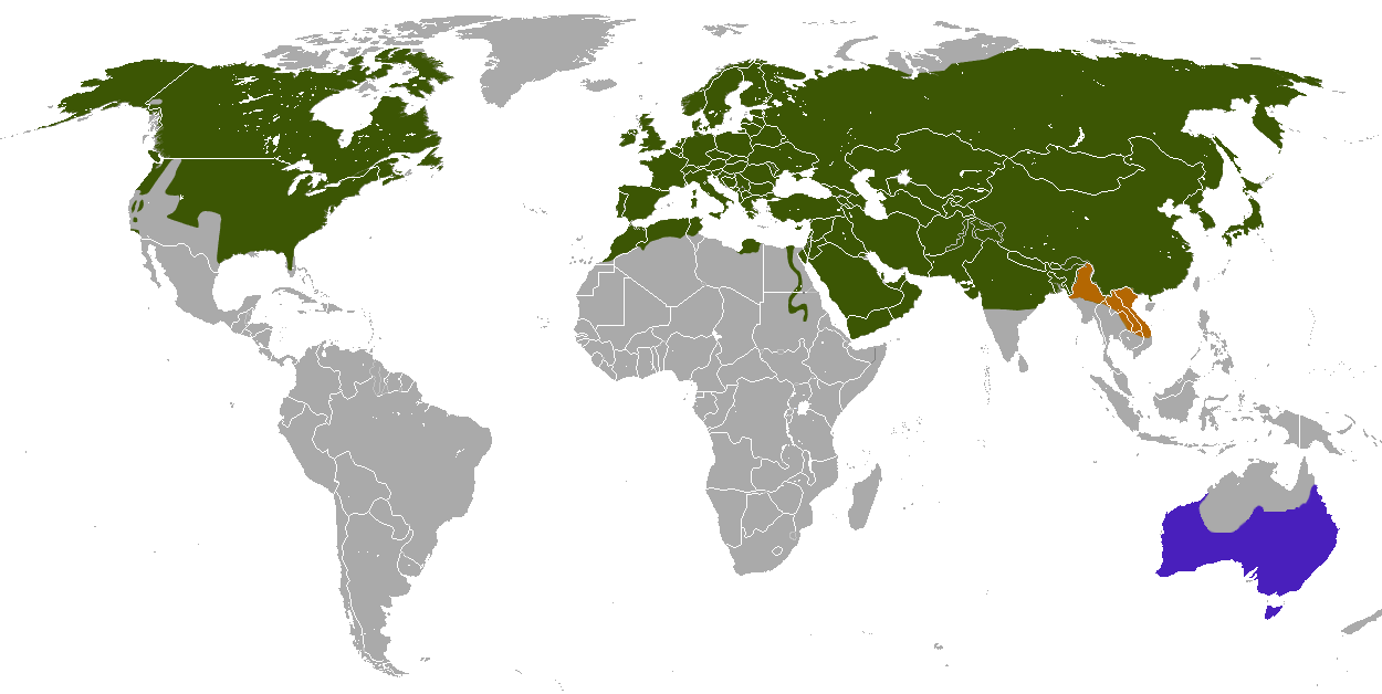 Red fox (Vulpes vulpes) range map: green = native, purple = introduced, orange = presence uncertain